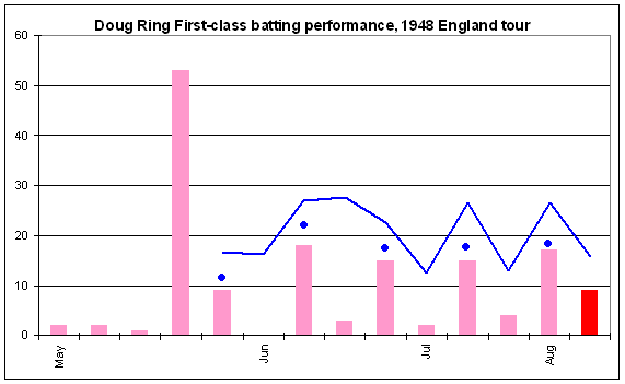 FC batting chart for Doug Ring during the 1948 tour of England. Blue line is an average for five most recent innings, blue dots are not outs. Bars are runs scored. Pink for FC, red for Tests